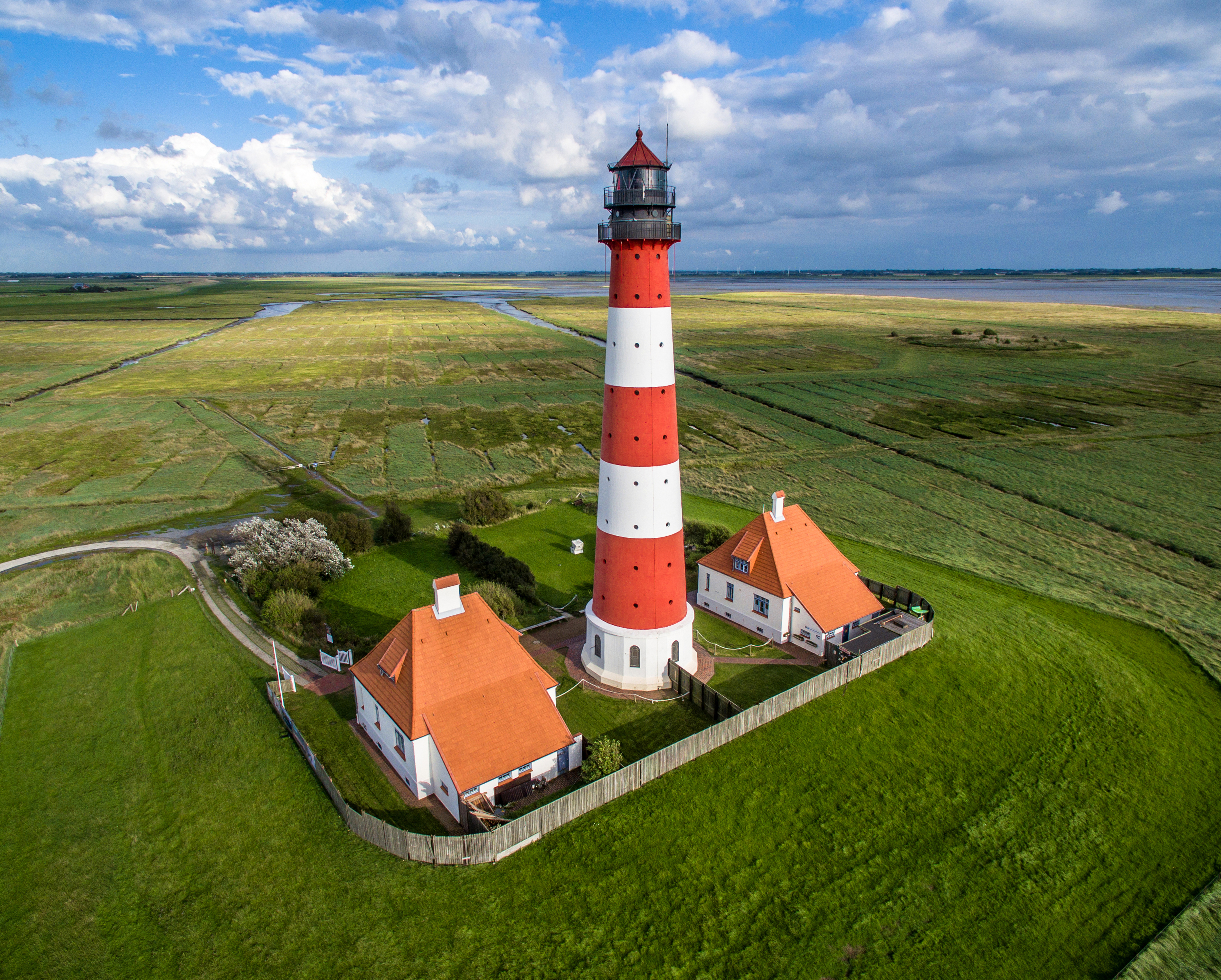 Aerial photograph of Westerheversand Lighthouse.